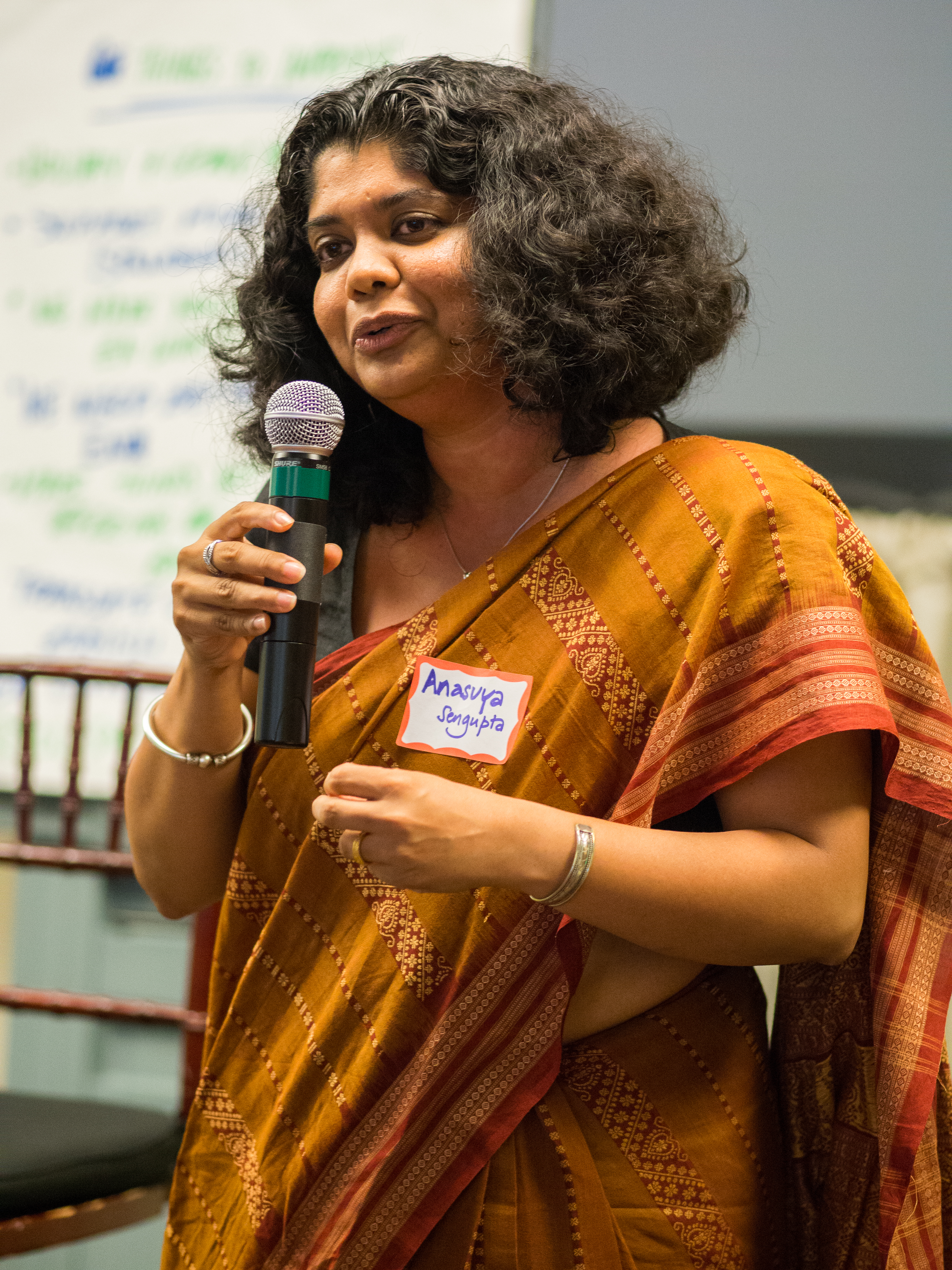 Wikimedia Foundation All staff/All hands meeting 2013.